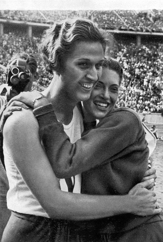 Alice Arden (right) of the USA congratulates Helen Stephen (left) of the USA after the 100 metres event at the 1936 Olympic Games in Berlin. Stephen won the gold medal